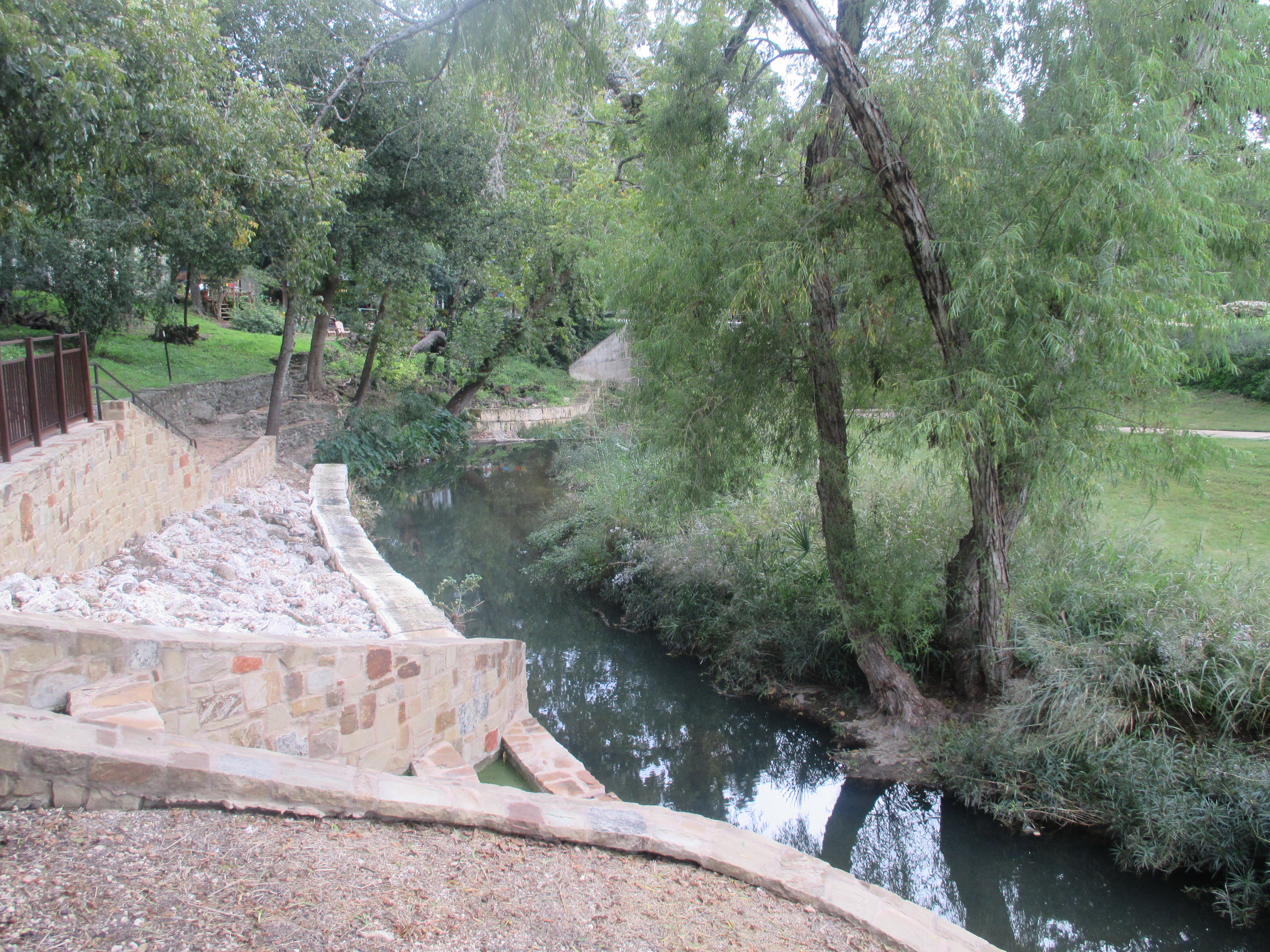 I took photo with Canon camera of Walnut Springs Park in Seguin, TX.